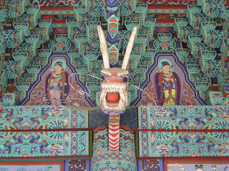 Songgwangsa, one of the most important Seon Buddhist monasteries in Korea and located in Jogyesan in Songgwang-myeon, Suncheon, Jeollanam-do, South Korea. This picture were taken in May 2004